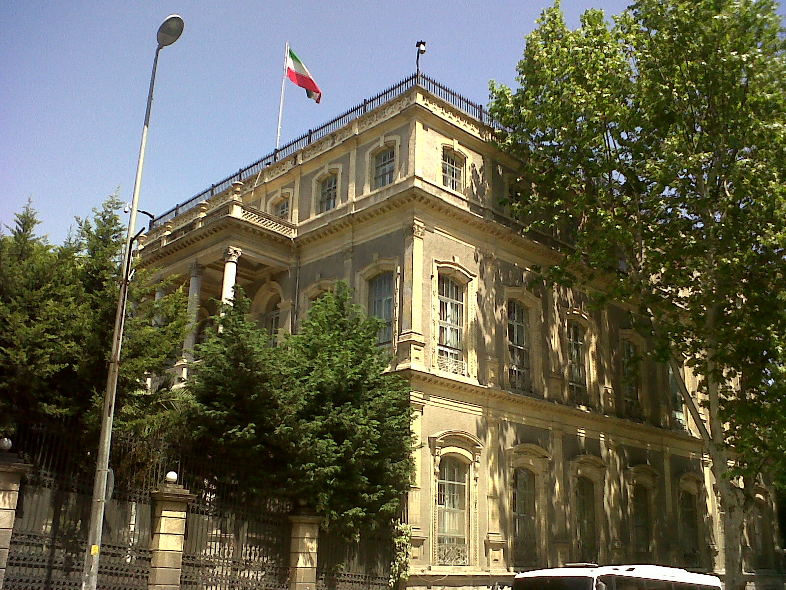 Consulate-General of the Islamic Republic of Iran in Istanbul, Turkey